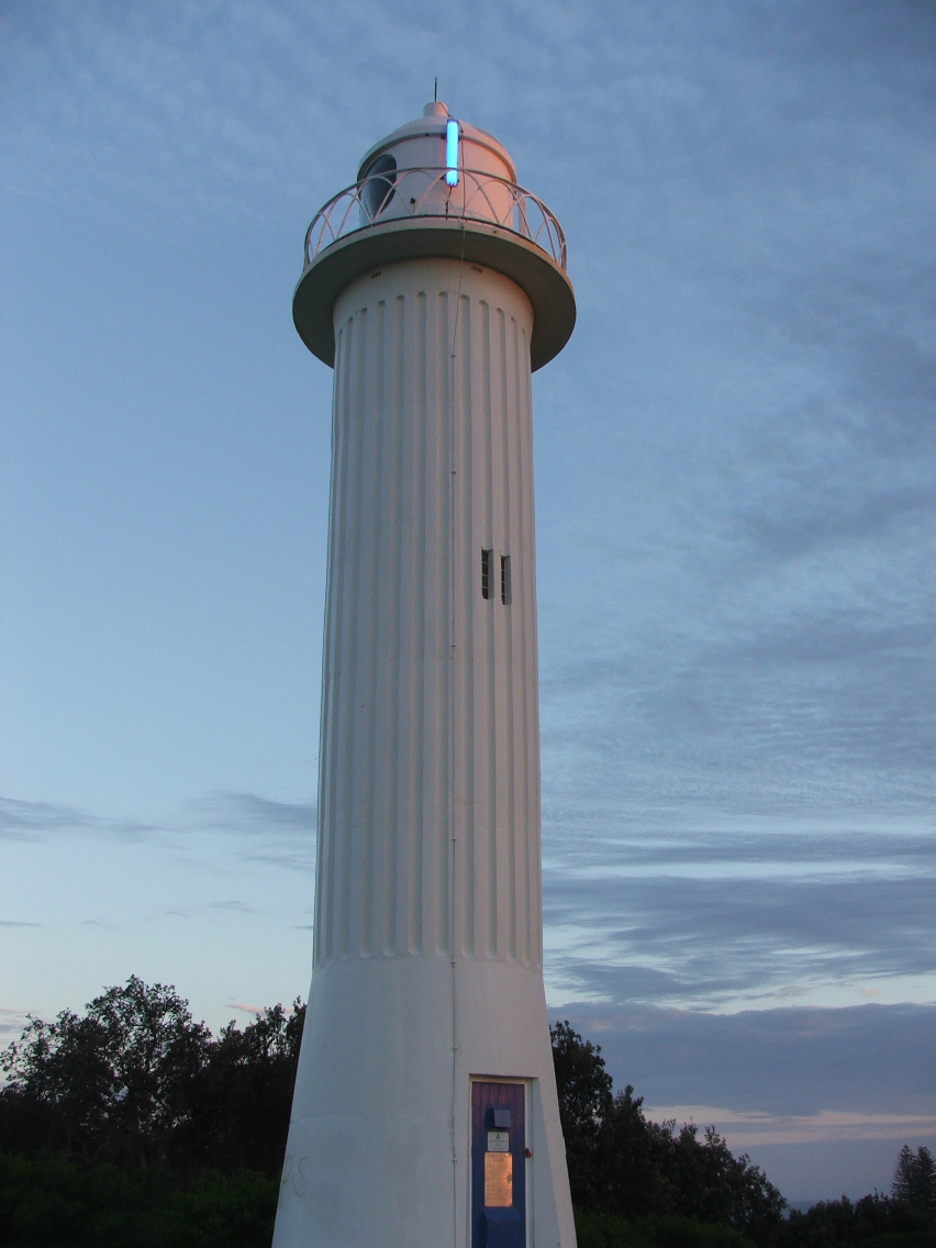 Photographer: Jason Armistead This is the current Clarence River Lighthouse, built in 1955. Taken: December 2006